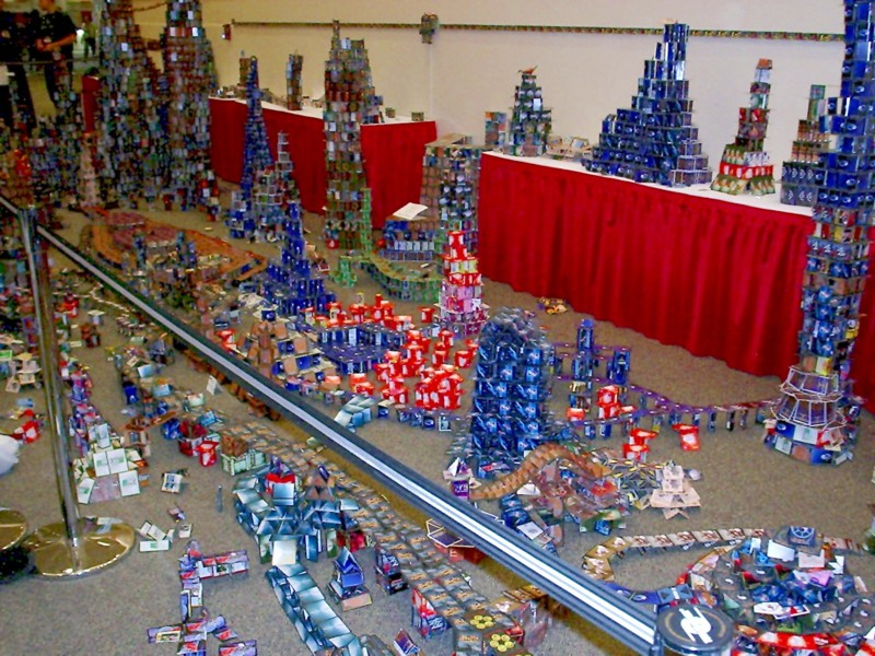 Cardhalla, Gen Con 2004 Photo of cardhalla taken by User:JHunterJ at GenCon 2004